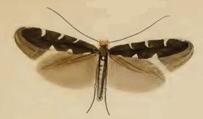 Stainton’s Natural History of the Tineina (1855–1873): Callisto denticulella